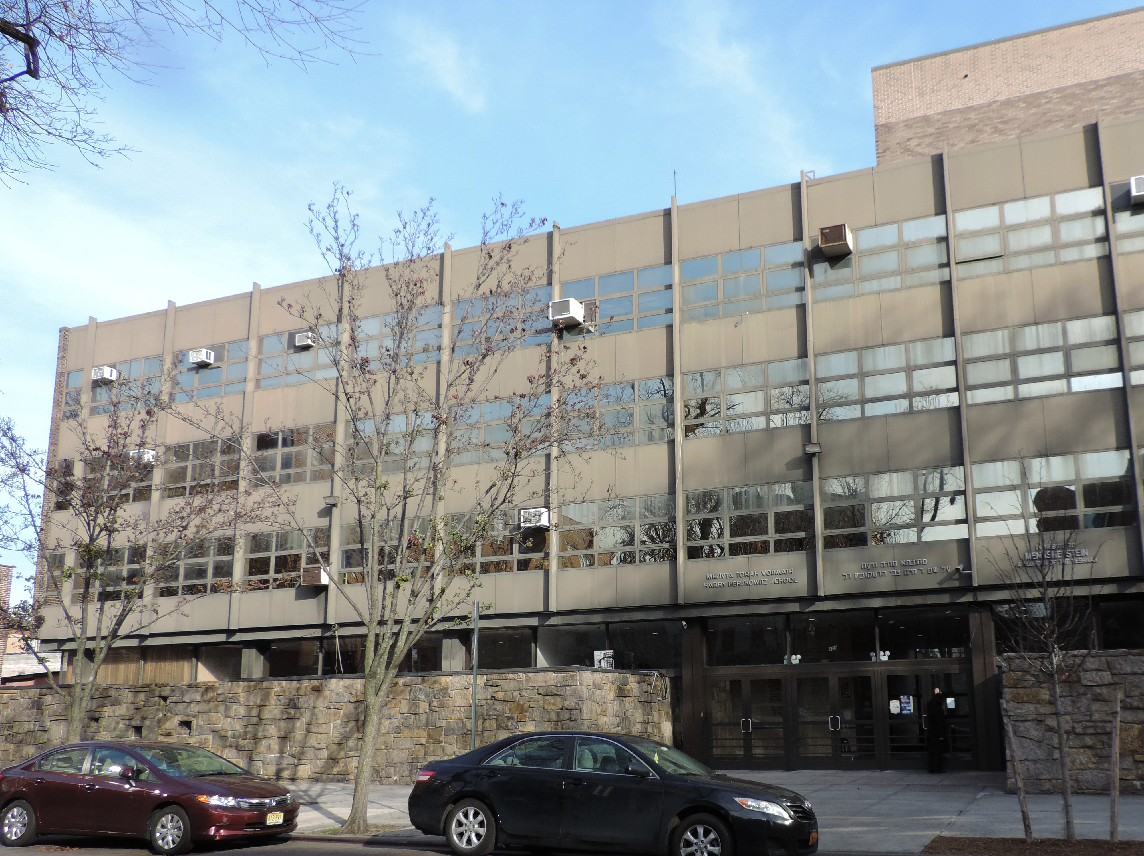 Looking east across at school on a mostly sunny afternoon.